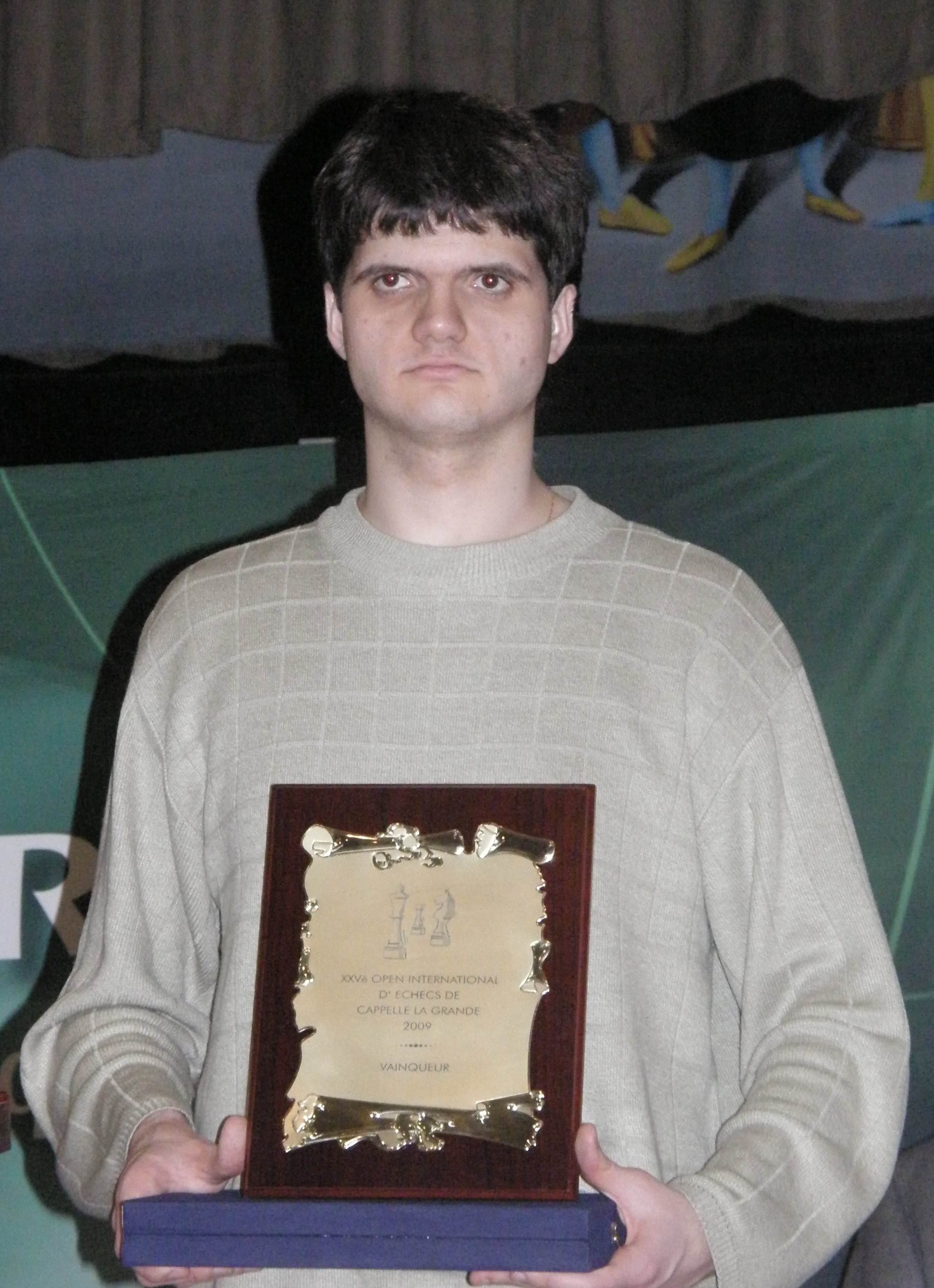 Vovk Yuri, Chess players from Ukraine